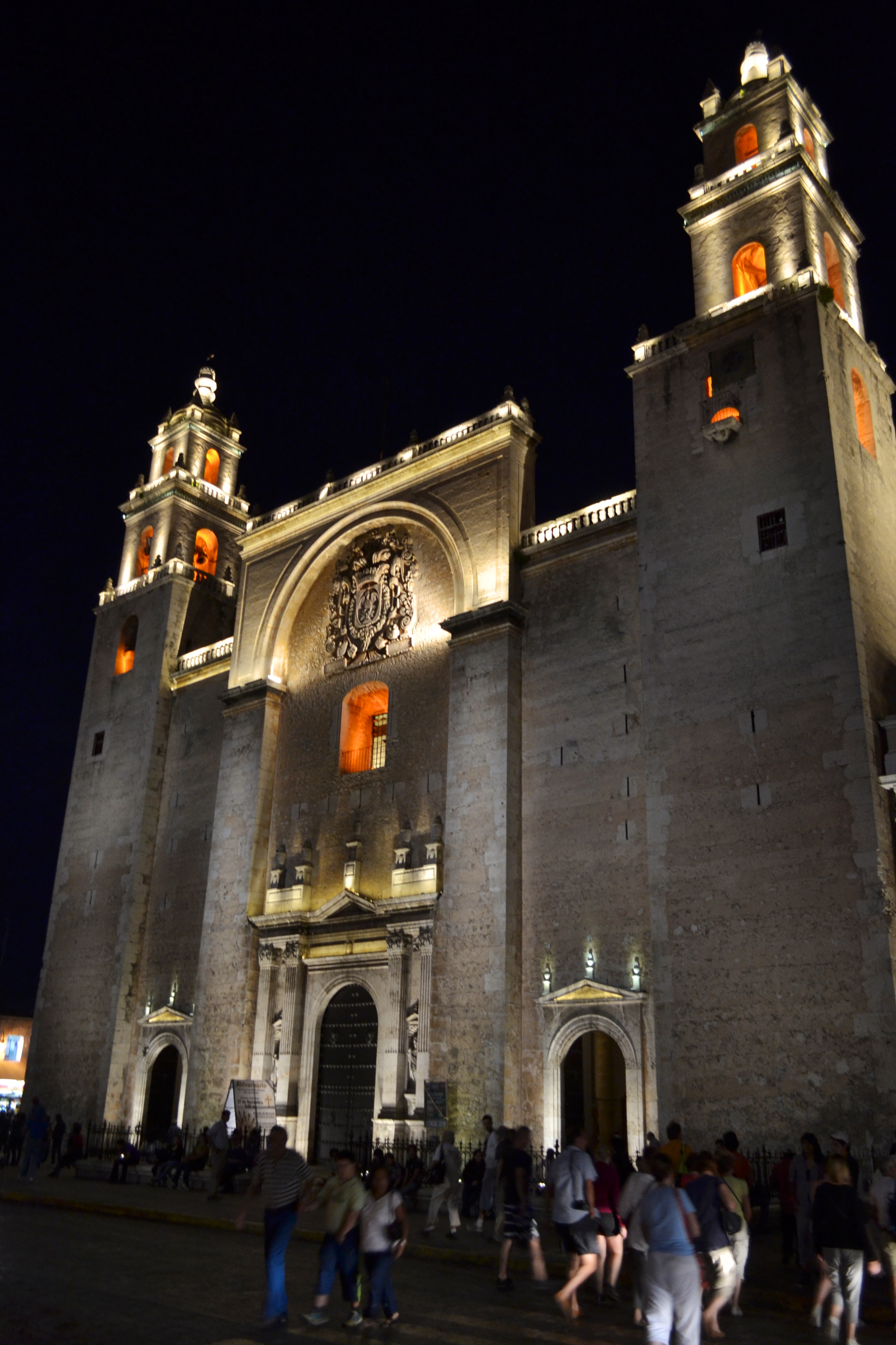 Catedral de San Ildefonso noche